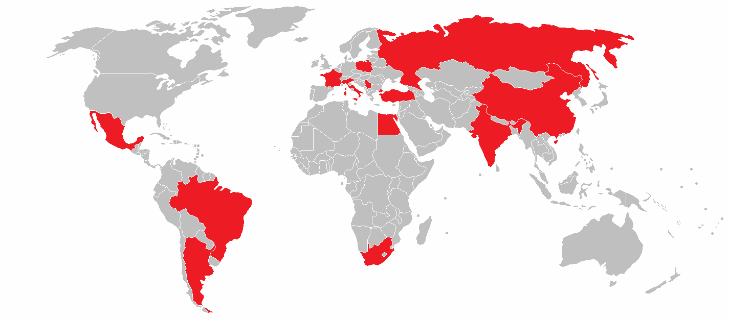 World locations of Fiat Group automobile manufacturing sites (own,license and joint ventures).